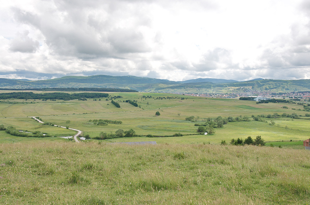 Panoramic scenes of the Pester plateau, karst region in southwestern Serbia. It situated in the area of Raska. The most part of Pešter is located in the municipality of Sjenica. The relief of Pester Plateau is characterized by low, hilly terrain, streams of clean water and vast meadows that are used for grazing sheep and cattle. Pester field is a region of outstanding natural value. A part of Pester is the Uvac River Canyon. In the canyon of the river Uvac nests large colony of eagles, vultures - Gyps fulvus.